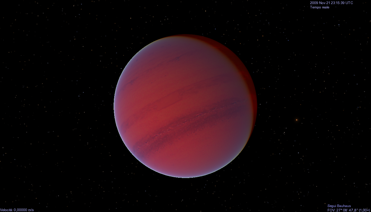 AB Pictoris B, substellar companion of AB Pic